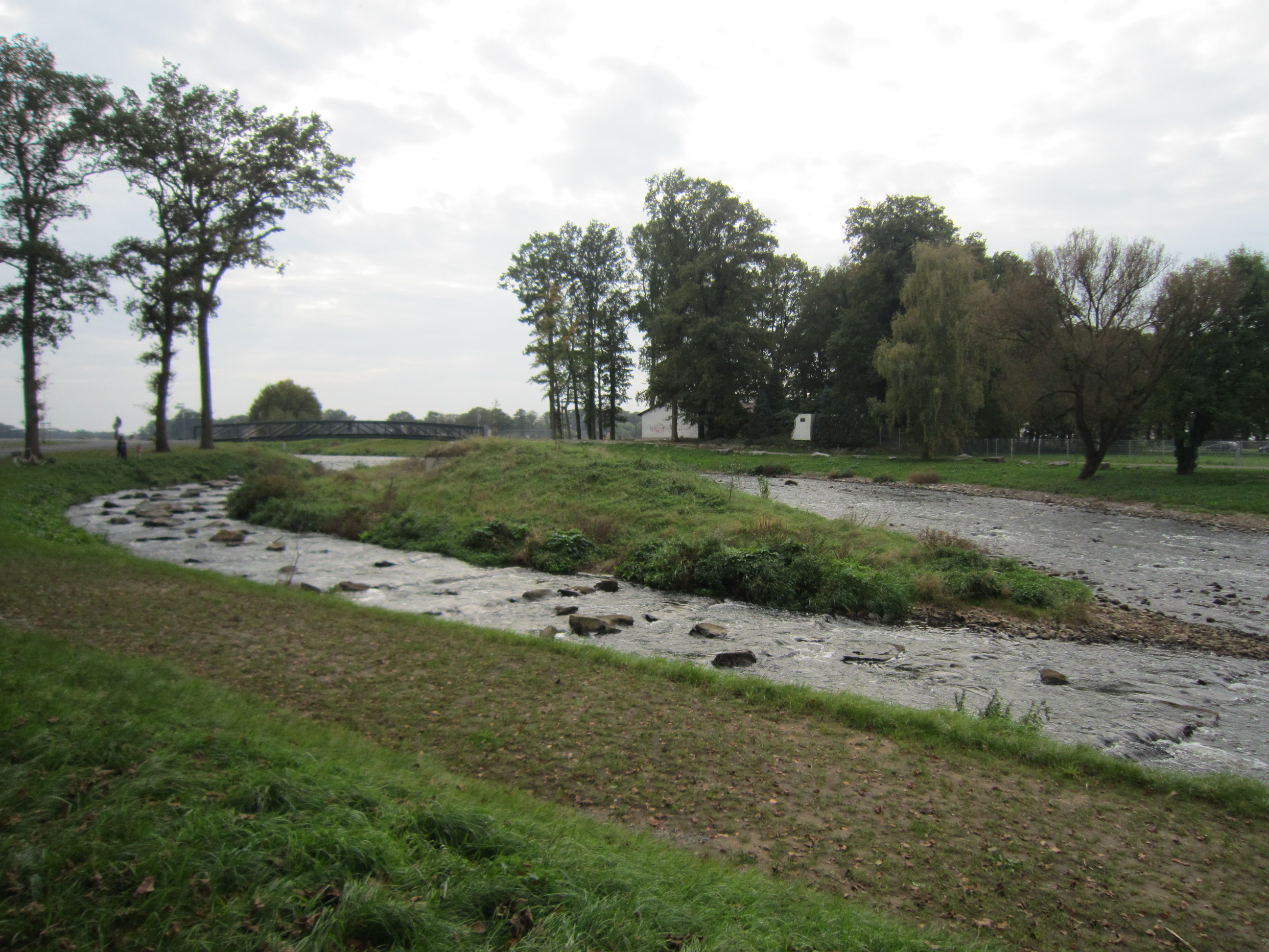 "Überfallhase" in Quakenbrück in a new design (with a rock ramp instead of a waterfall)